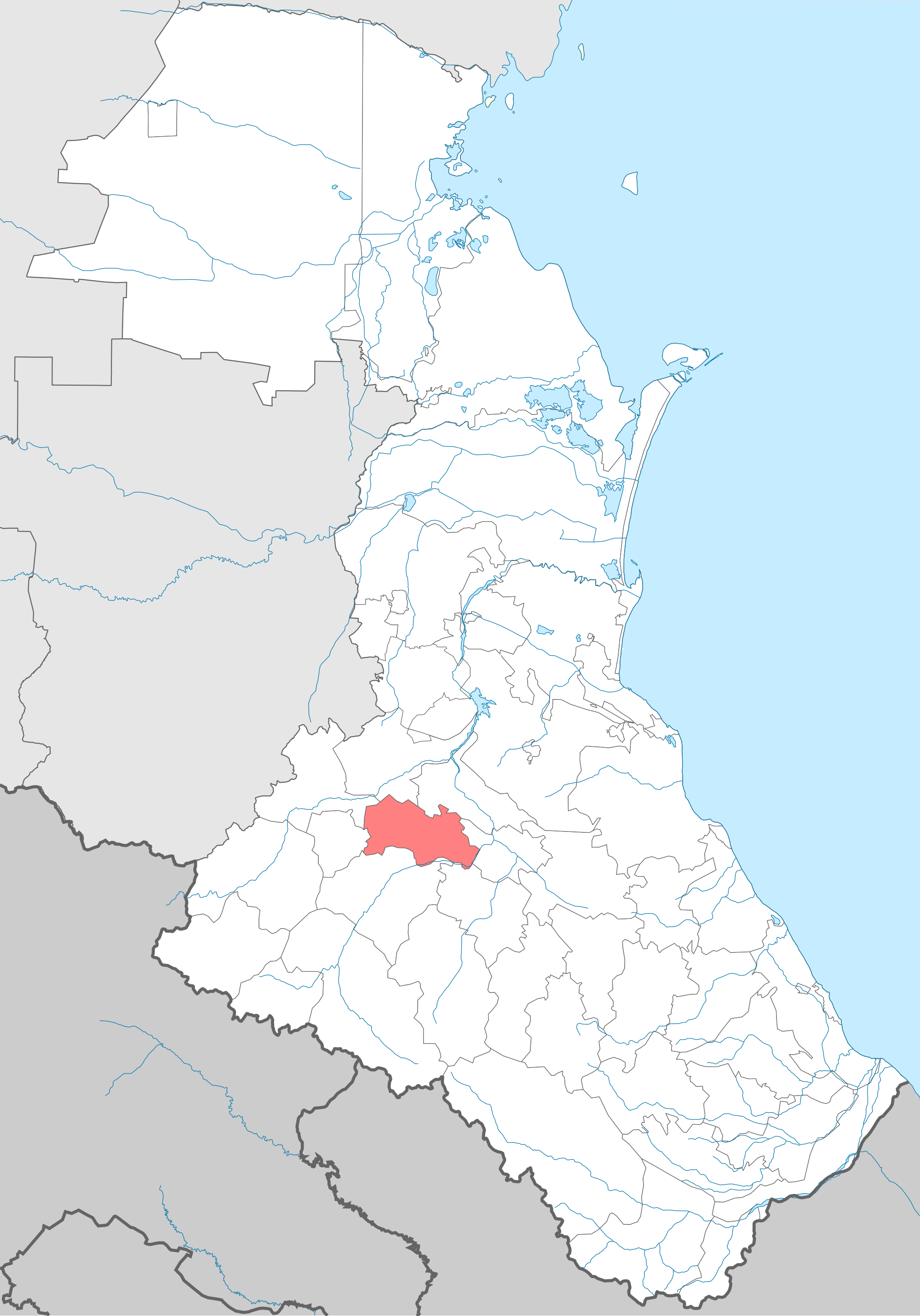 Hunzahsky district locator map